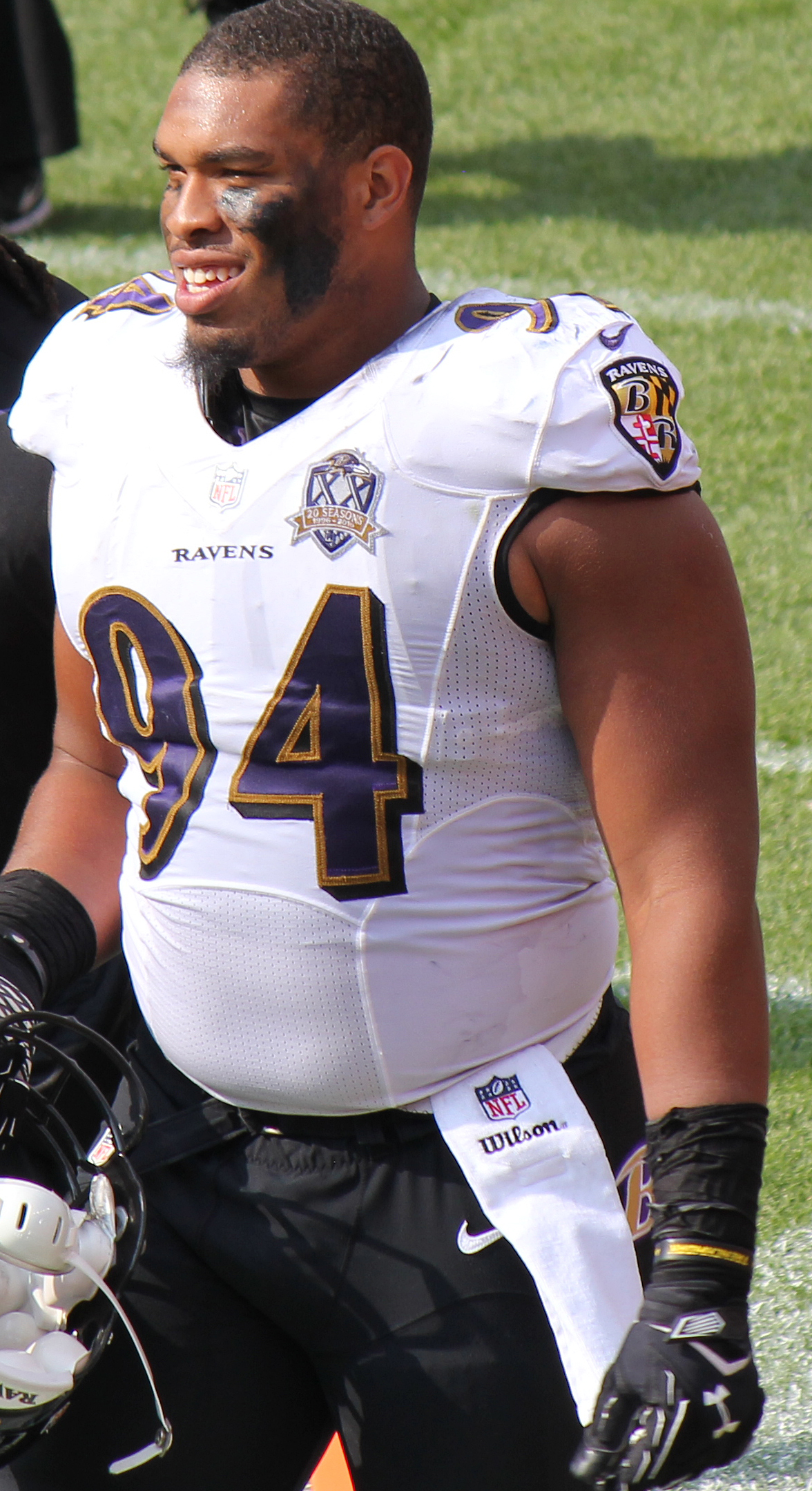 Carl Davis, a player on the National Football League.